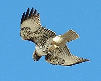 Red-tailed Hawk soaring. Photographed at Half Moon Bay, 6th March 2004, by Stephen Lea. This cropped image placed in the public domain 6th March 2004.